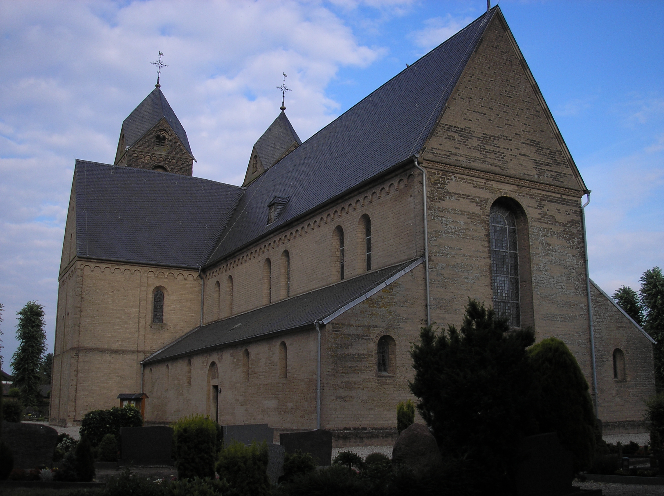 Collegiate church in Kalkar-Wissen, Northrhine-Westphalia, Germany